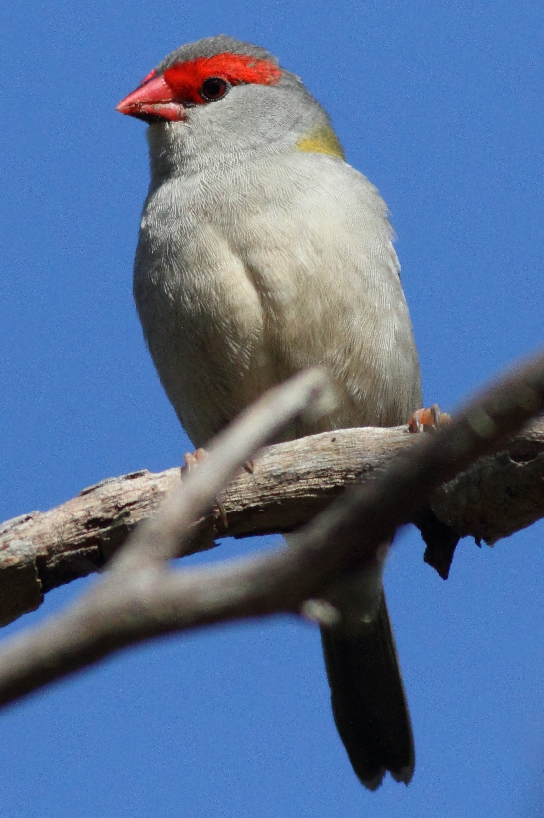 A Red-browed Finch at Coolart Wetlands, Mornington Peninsula, Victoria, Australia.